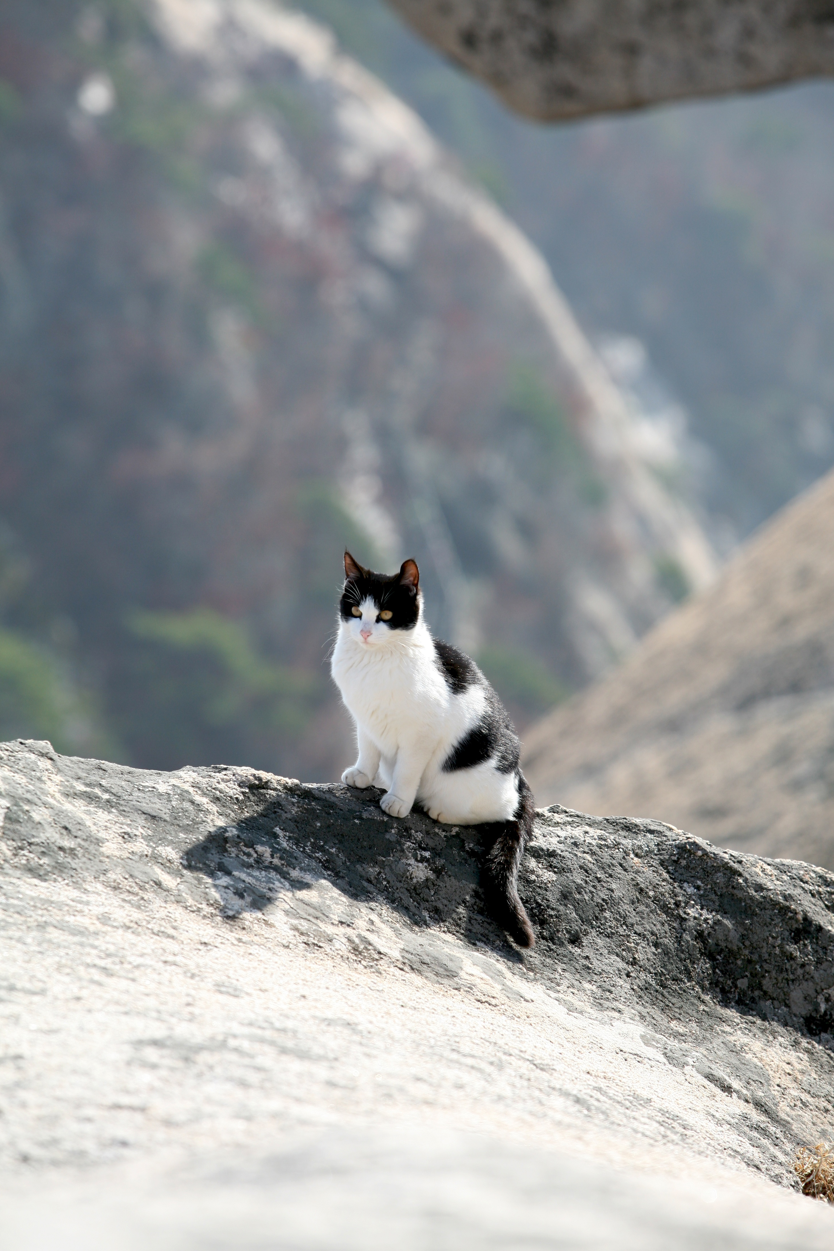 A shorthair cat with a mask-and-mantle pattern, at Bukhansan (Mt. Bukhan)